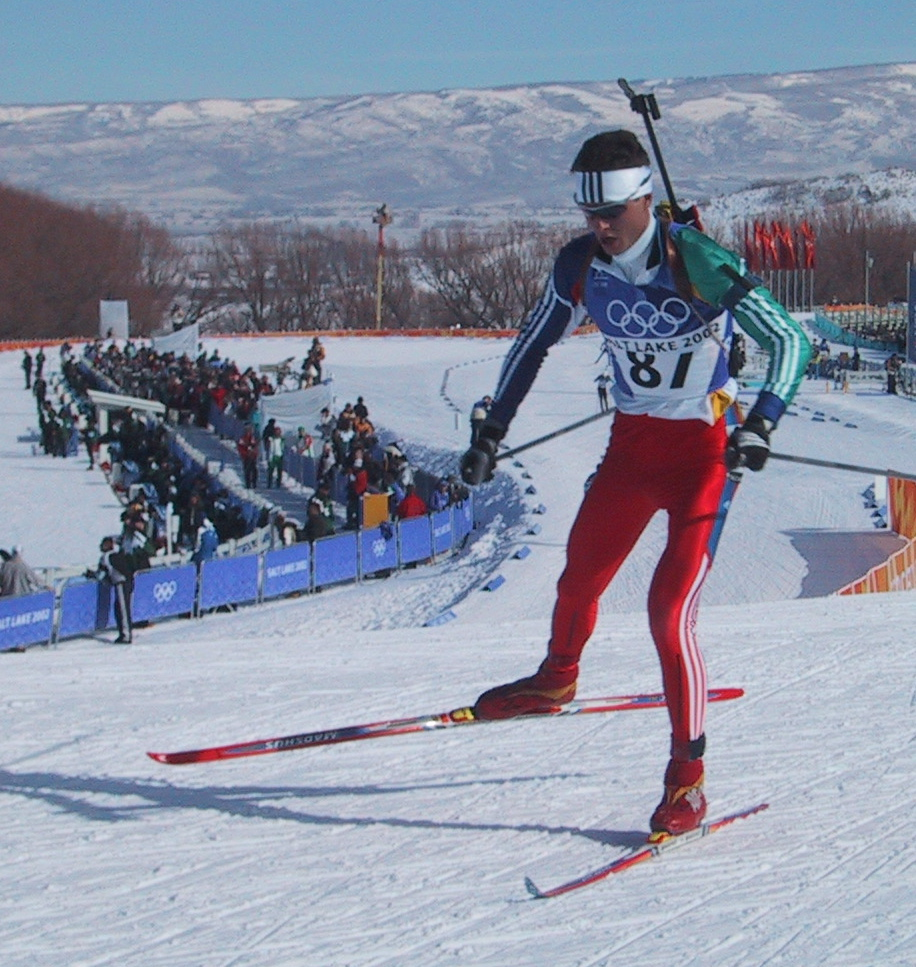 Frode Andresen competing in the 20km Individual 2002 Olympic Biathlon race at Soldier Hollow. I took this picture from the Equipment Check area where I was volunteering.